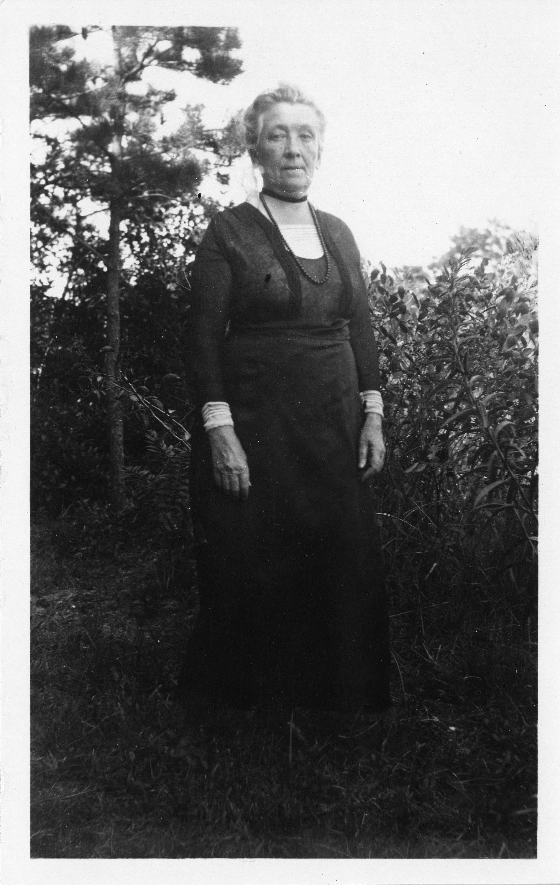 Subject: Clapp, Cornelia M (Cornelia Maria) 1849-1935 Syracuse University University of Chicago Mount Holyoke College Marine Biological Laboratory (Woods Hole, Mass.) Type: Black-and-white photographs Topic: Women scientists Ichthyology Biology Local number: SIA Acc. 90-105 [SIA2008-0113] Summary: Clapp was a noted biology professor at Mount Holyoke College. She earned both the first (Syracuse, 1889) and second (Chicago, 1896) biology doctorates awarded to women in the United States. She began research at Woods Hole Marine Biological Laboratory from the time of its establishment in 1888; and later served as lecturer and librarian, and was elected a trustee in 1910 Cite as: Acc. 90-105 - Science Service, Records, 1920s-1970s, Smithsonian Institution Archives